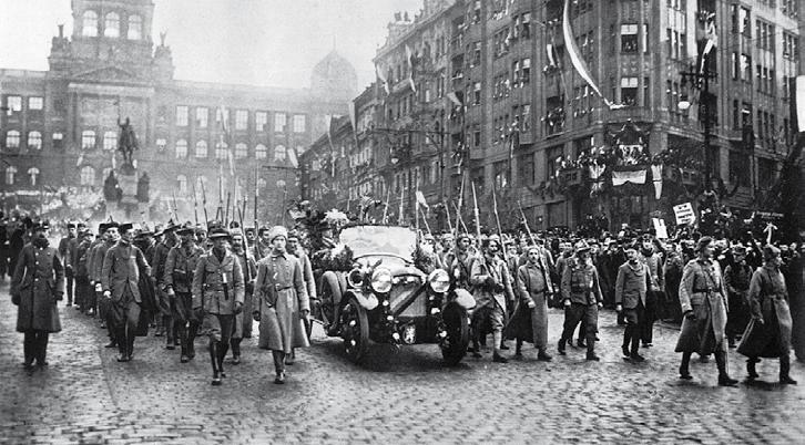 Arrival T. G. Masaryk in Prague - 21 December 1918